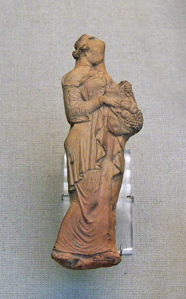 Arretine poinçon (stamp) depicting Spring. Late 1st century BC. British Museum, London. GR 1896.12-17.10